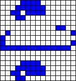 A flottilla allowing to stabilize an OWSS with two HWSS.